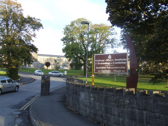 Galway-Mayo Institute of Technology at Castlebar. The Galway-Mayo Institute of Technology at Castlebar is located on approximately 20 hectares of land less than 10 minutes walk from Castlebar Town. The Institute with its extensive, mature grounds and elegant buildings constitutes a pleasant and productive environment for study. The Galway- Mayo Institute of Technology at Castlebar enrolled its first students in September, 1994. There are 1,500 students (of which 900 are full time) currently studying at Castlebar. See